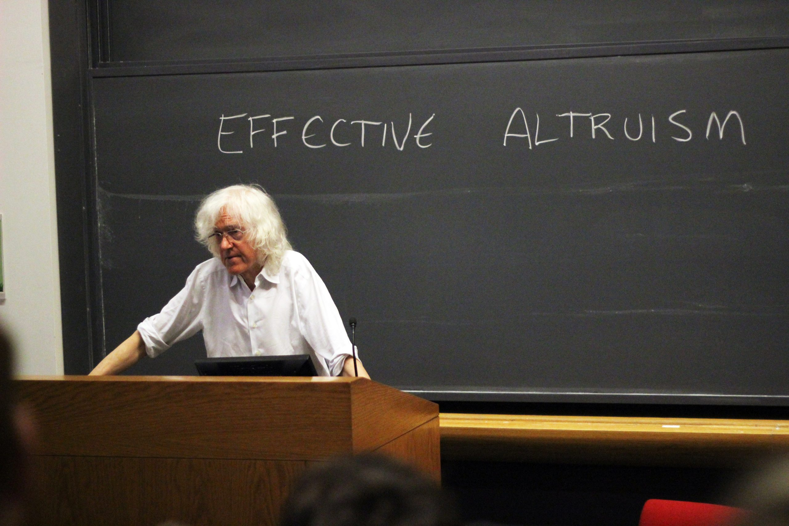 Derek Parfit